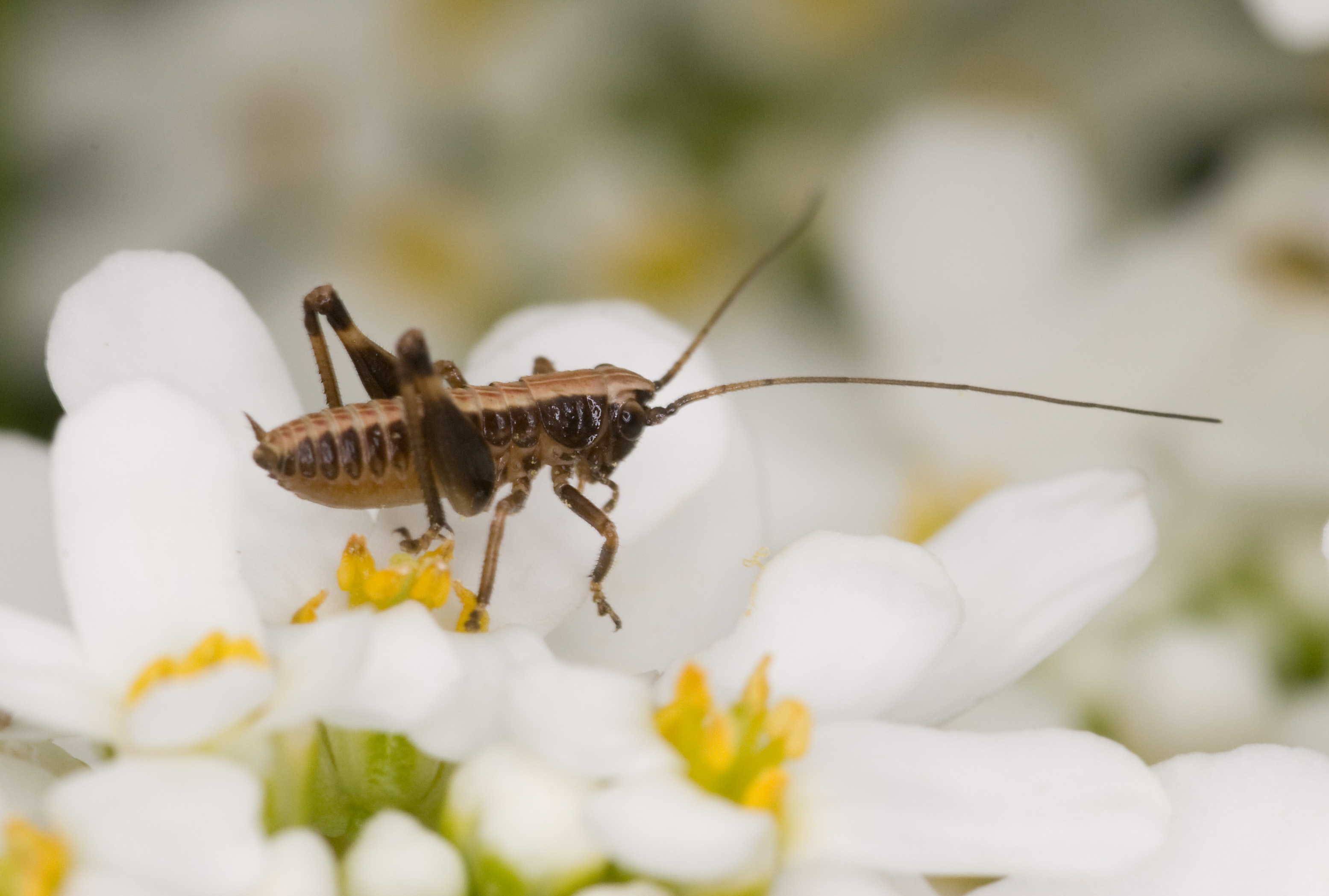 Nymph of Pholidoptera griseoaptera, thanks to Doc Taxon for the identification